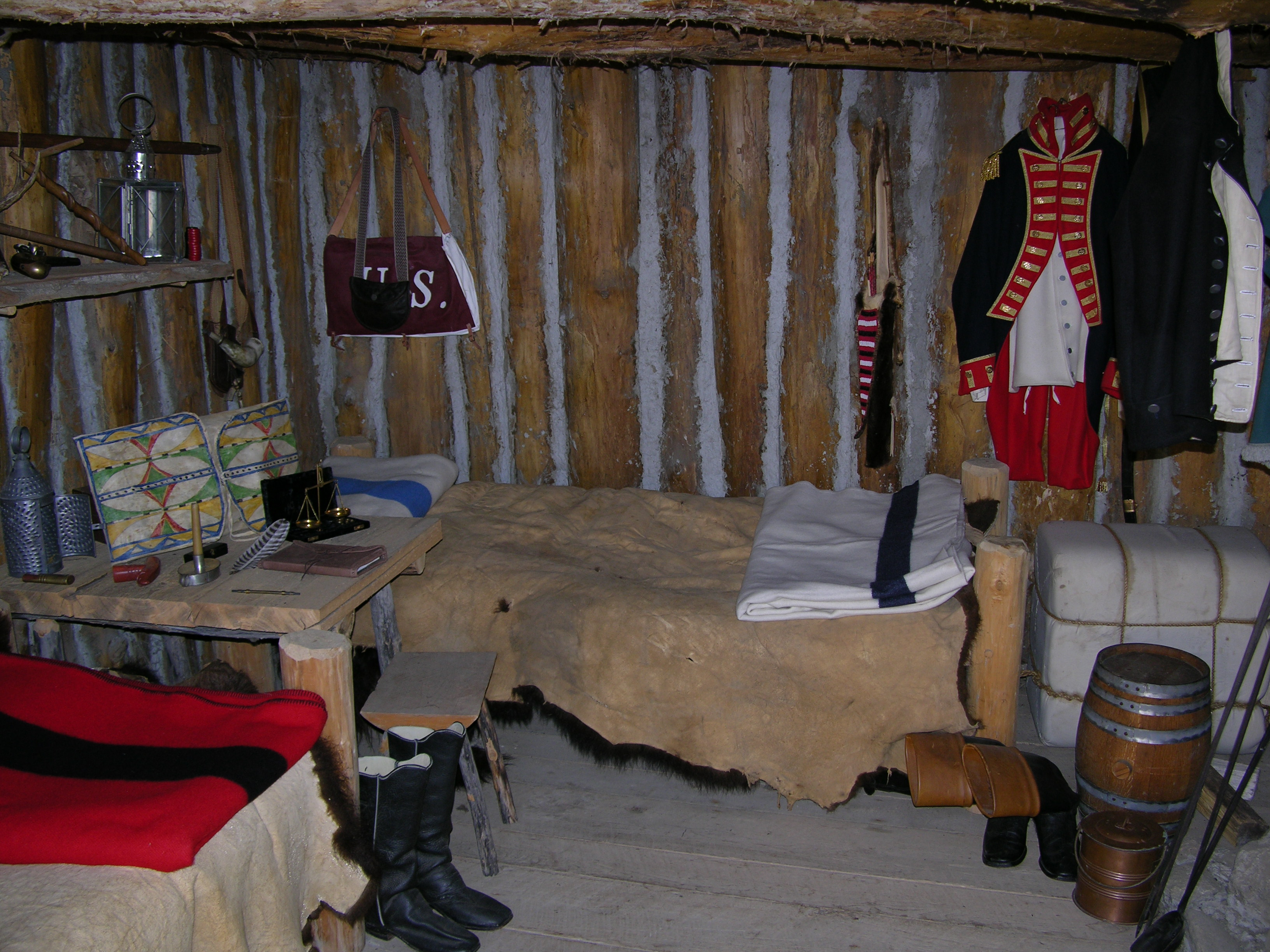 A reconstruction of Lewis and Clark's room at Fort Mandan